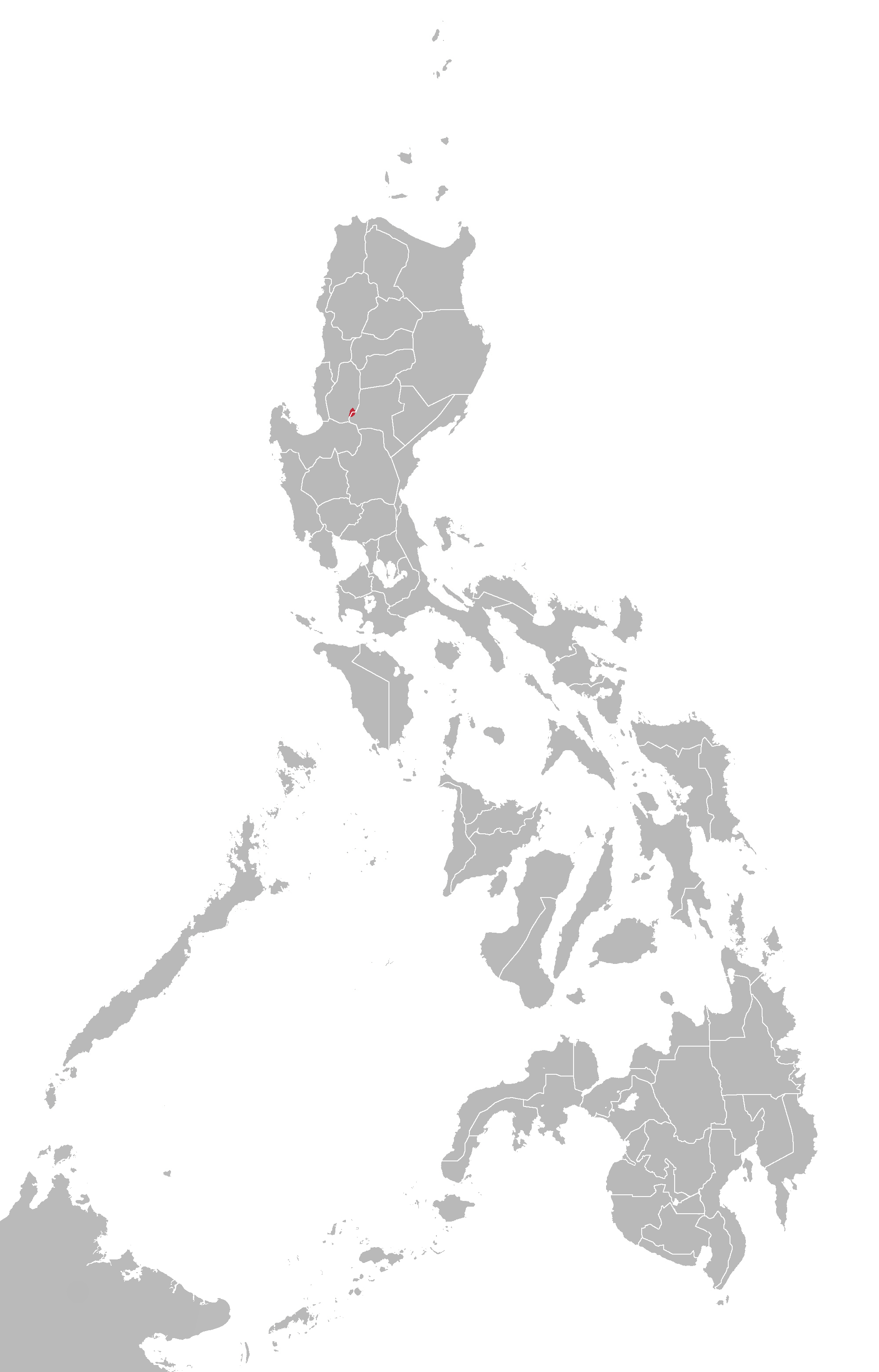 Iwaak language map according to Ethnologue maps